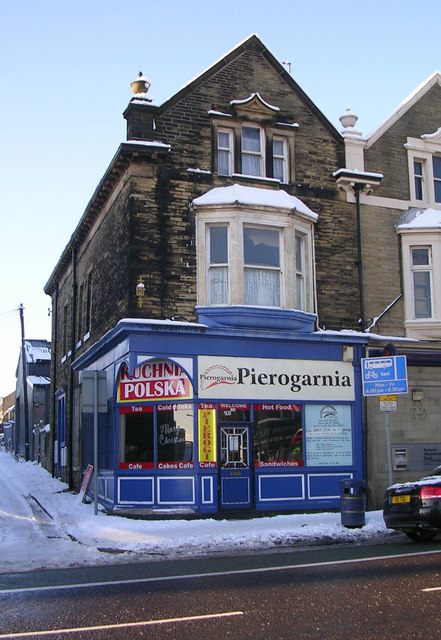 Pierogarnia - Manningham Lane